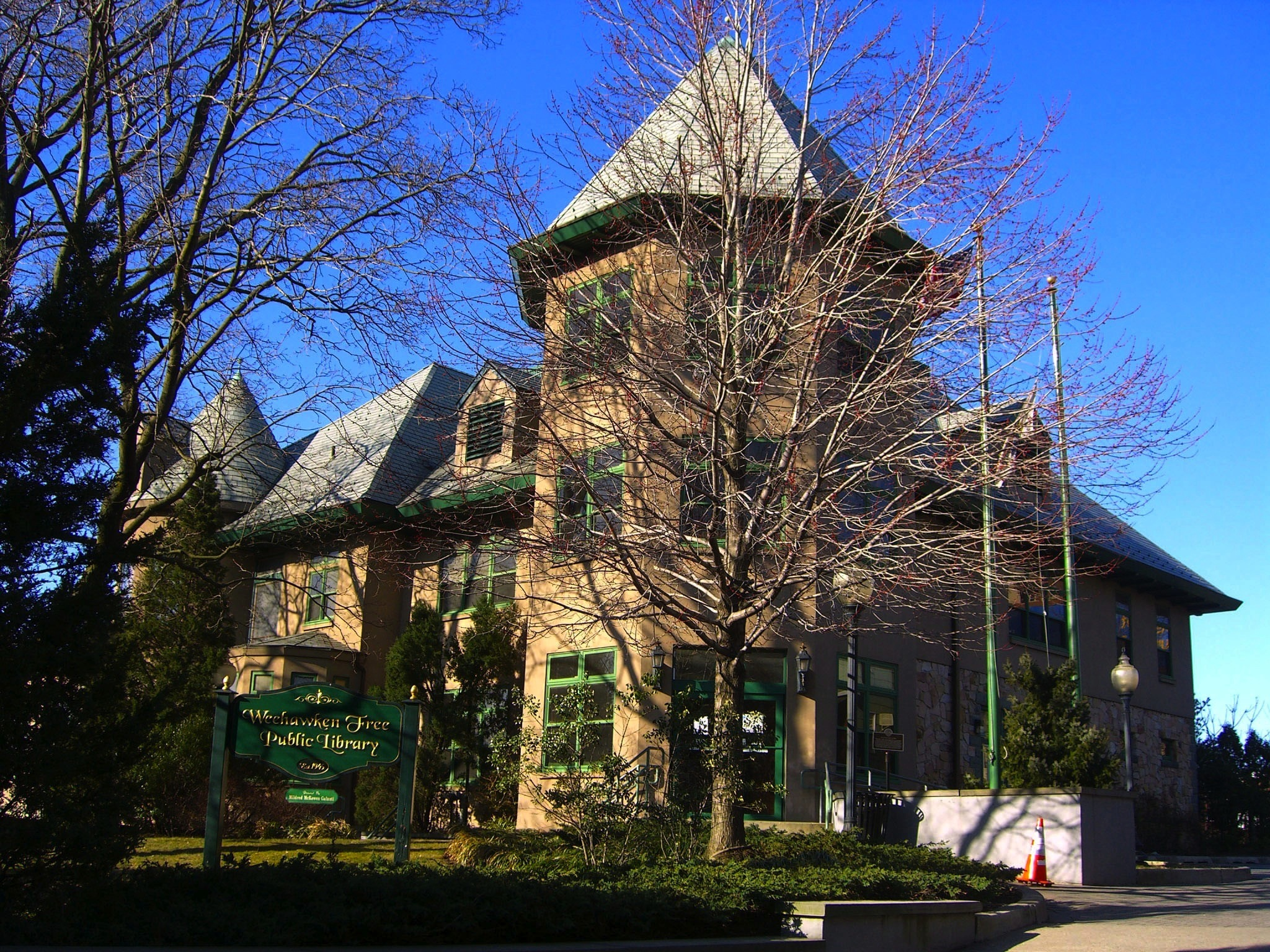 Weehawken Public Library in Weehawken, New Jersey. This photo was created by Luigi Novi. It is not in the public domain, and use of this file outside of the licensing terms is a copyright violation.